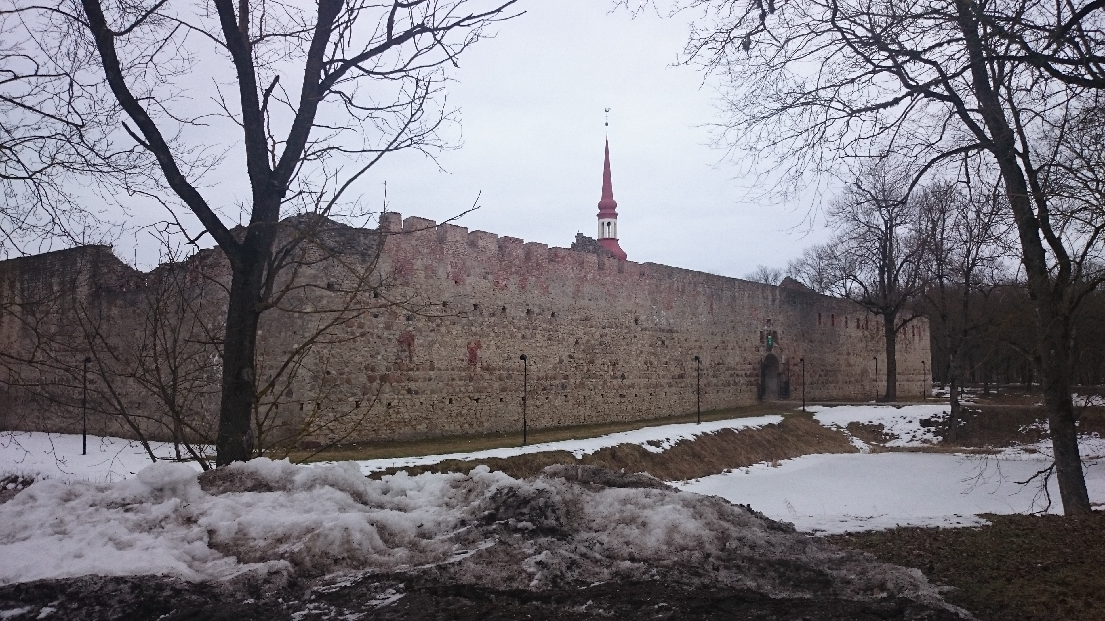 Wall of Põltsamaa Castle, Estonia